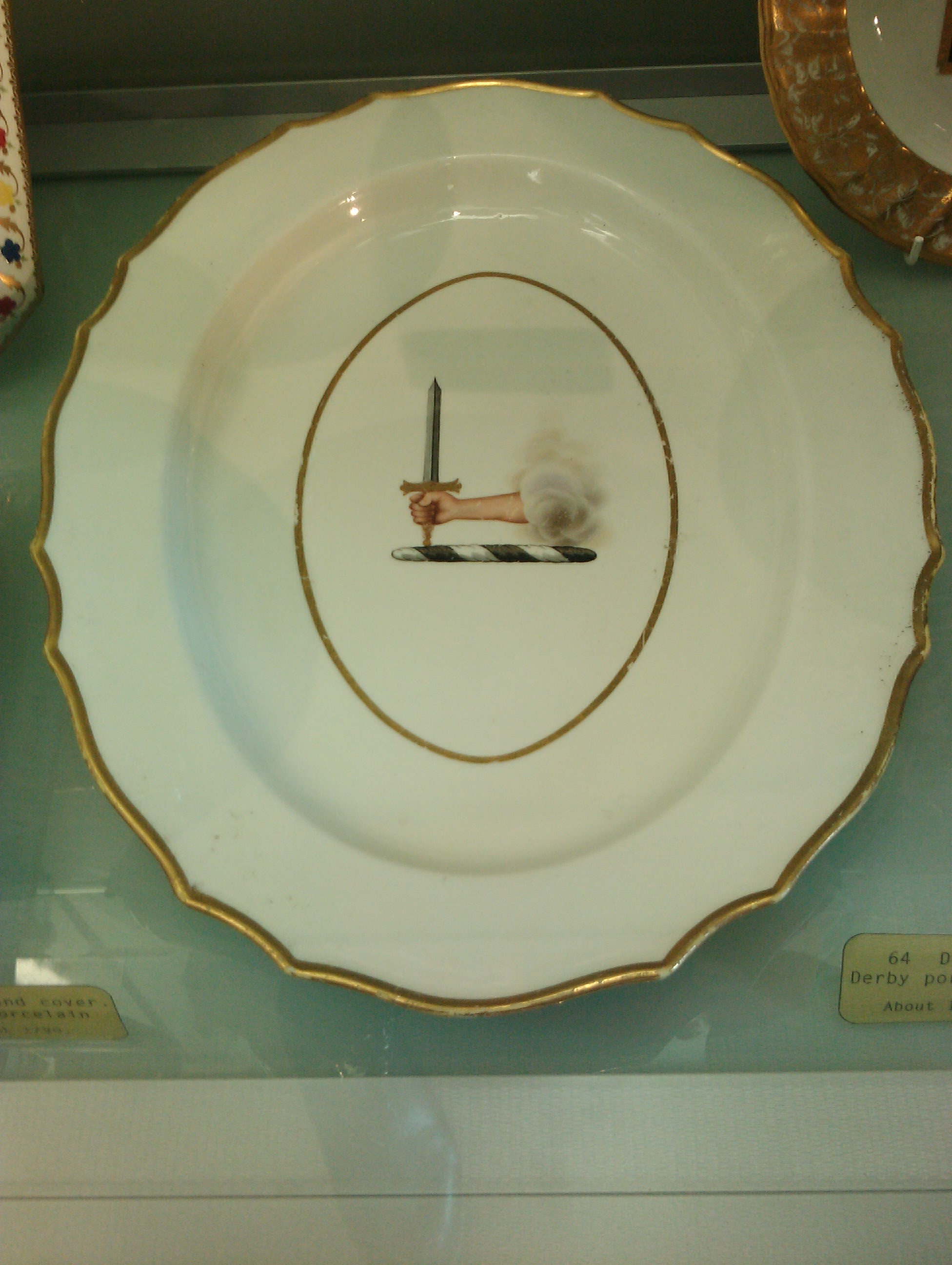 Porcelain plate with arm out of cloud. Picture loaded in readiness for the GLAMWIKI event in April 2011 at :en:Derby Museum and Art Gallery |Derby Museum and Art Gallery Details are here